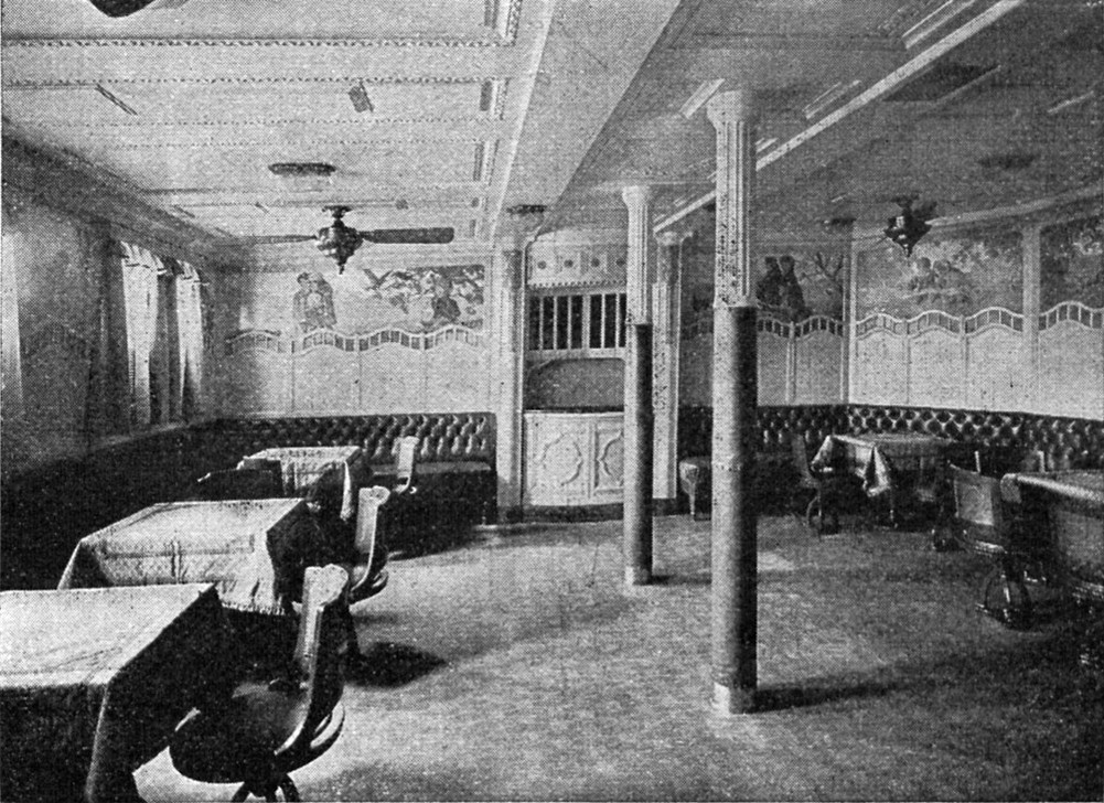 Children's playroom in the George Washington luxury steamer, built by the Norddeutsche Lloyd in 1909